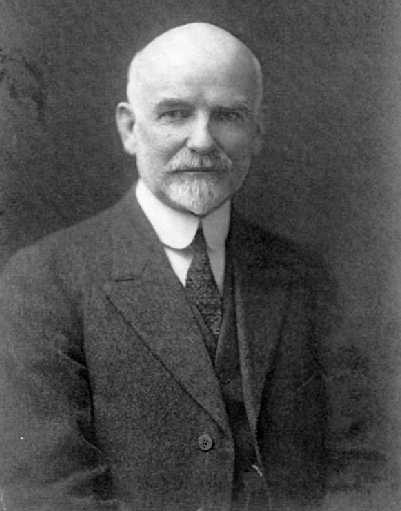 1920 portrait of Charles Ambrose Zavitz